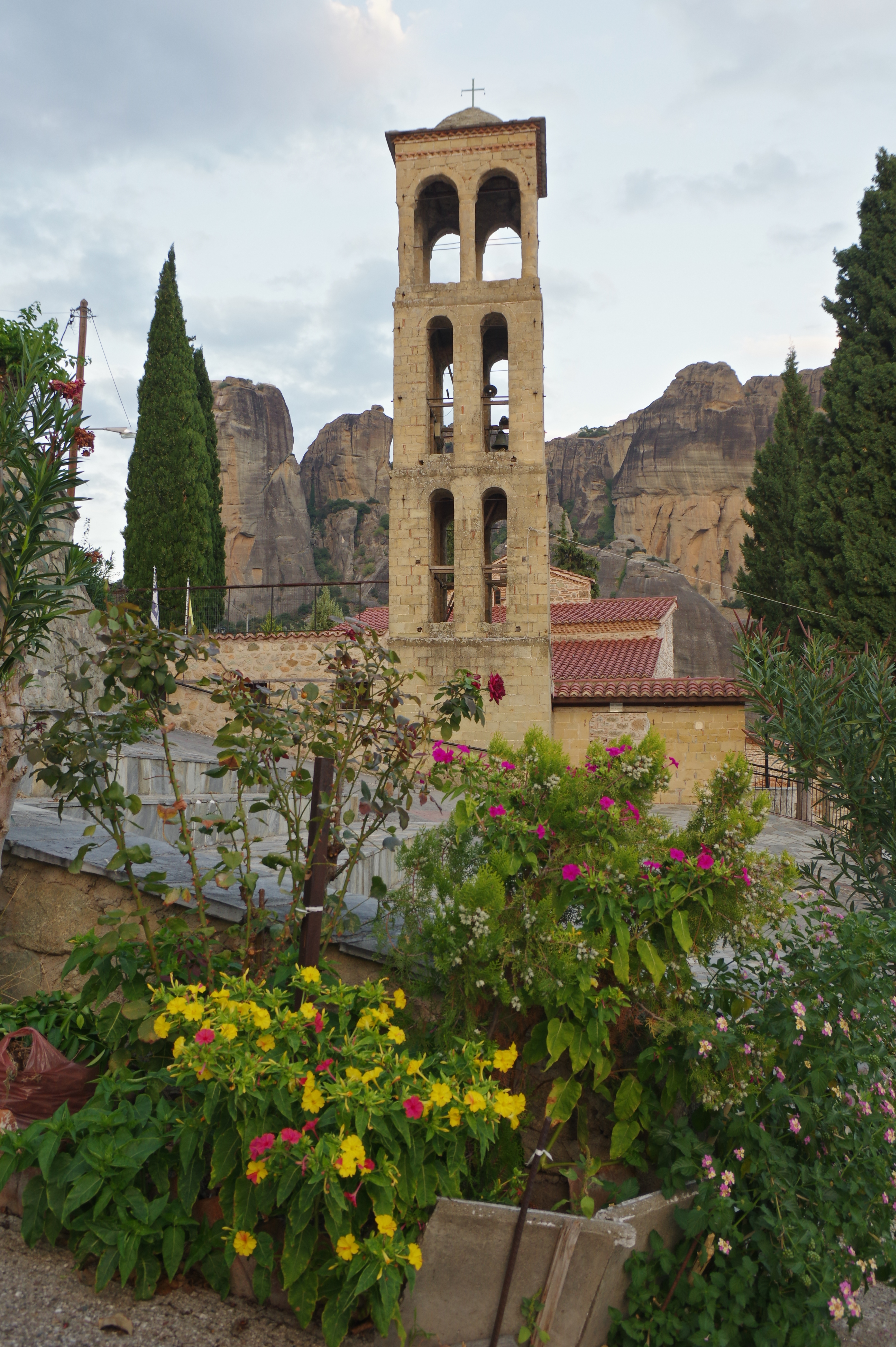 Greece, Kalampaka, Kimisis tis Theotokou church